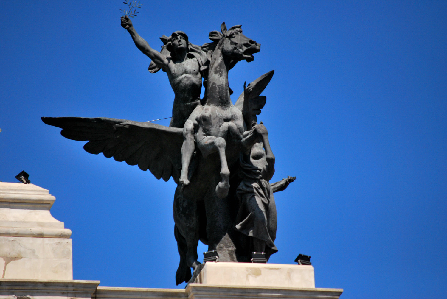 La Gloria y los Pegasos in Madrid (Spain).